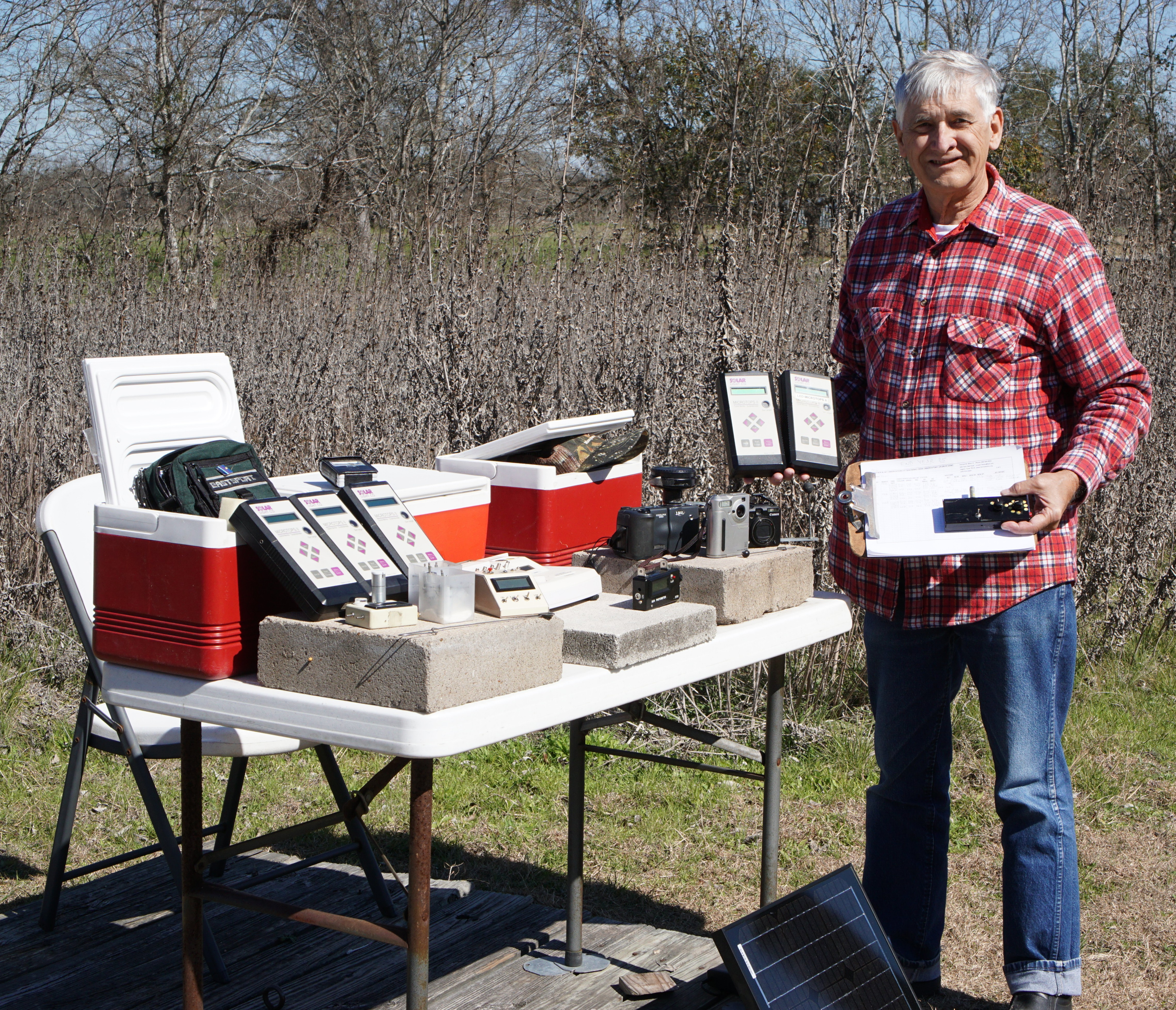 The various sun photometers, radiometers and cameras on the table are used every day at solar noon when the sun is not blocked by clouds. See Wikimedia and for 25-year charts of total ozone, total water vapor and optical depth (haze). Mims' original LED sun photometer (placed in service during fall 1989) is in his left hand. Two Microtops II are in his right hand. One is among the very first (1997) and the other is the only MicroTOPS II with LEDs as photodetectors. The photo was made by Minnie C. Mims on 4 Feb 2016 with a Sony a6000.